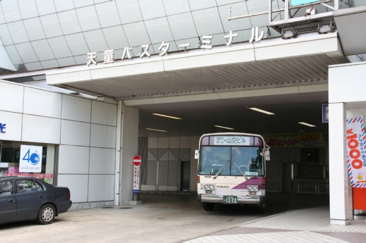 Tendō Bus Terminal (Tendō Station, Tendō City, Yamagata Prefecture, Japan.)